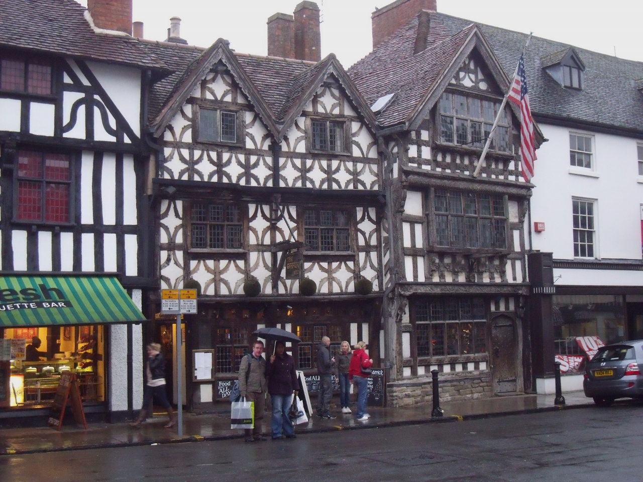 The Garrick Inn is a timber framed building dating back to the 1400's. It has a rich history including plagues, fatal fires and priest holes and ghosts. Possibly the oldest tavern in the town.